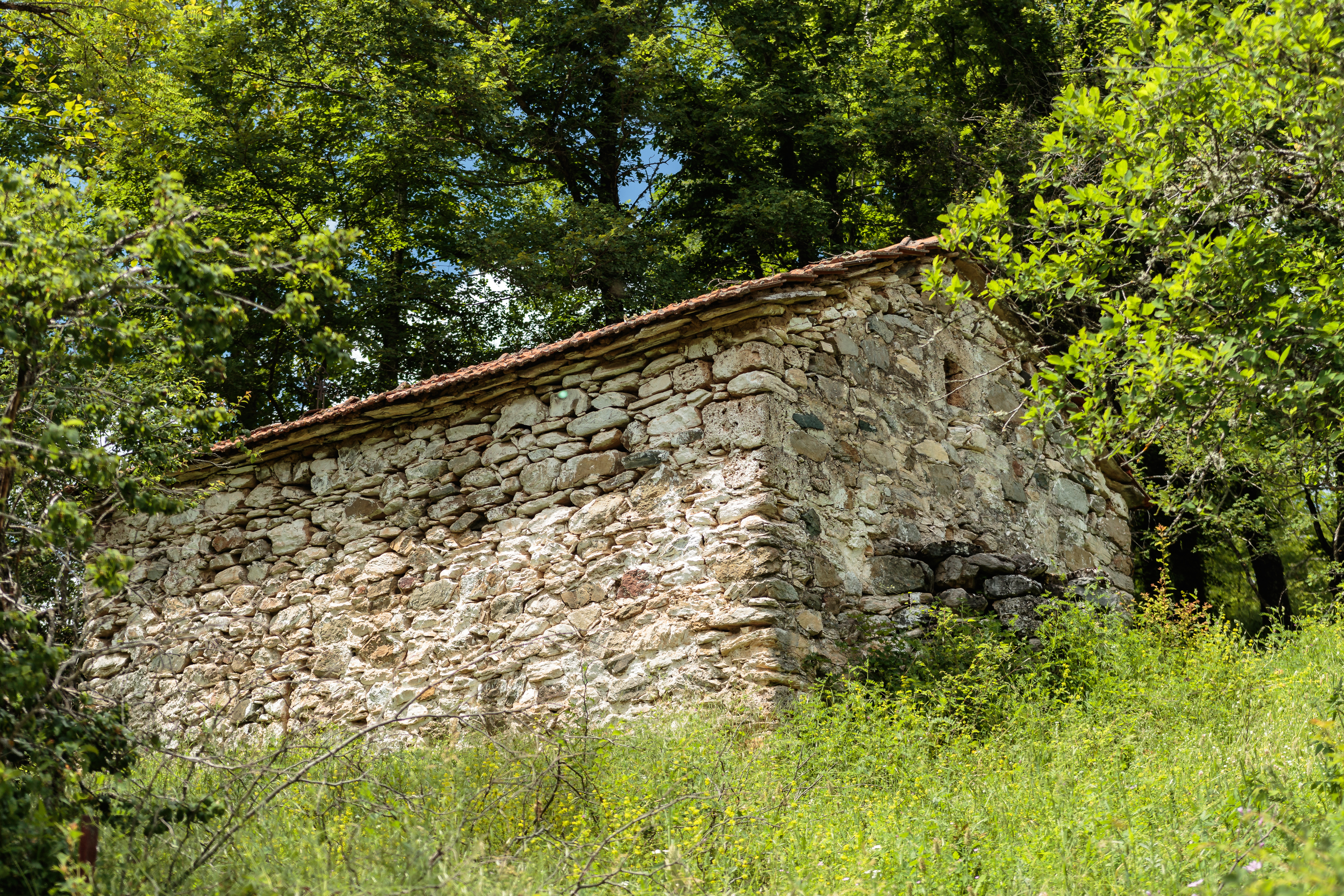 View of the St. Elijah Church in the village Brezovo